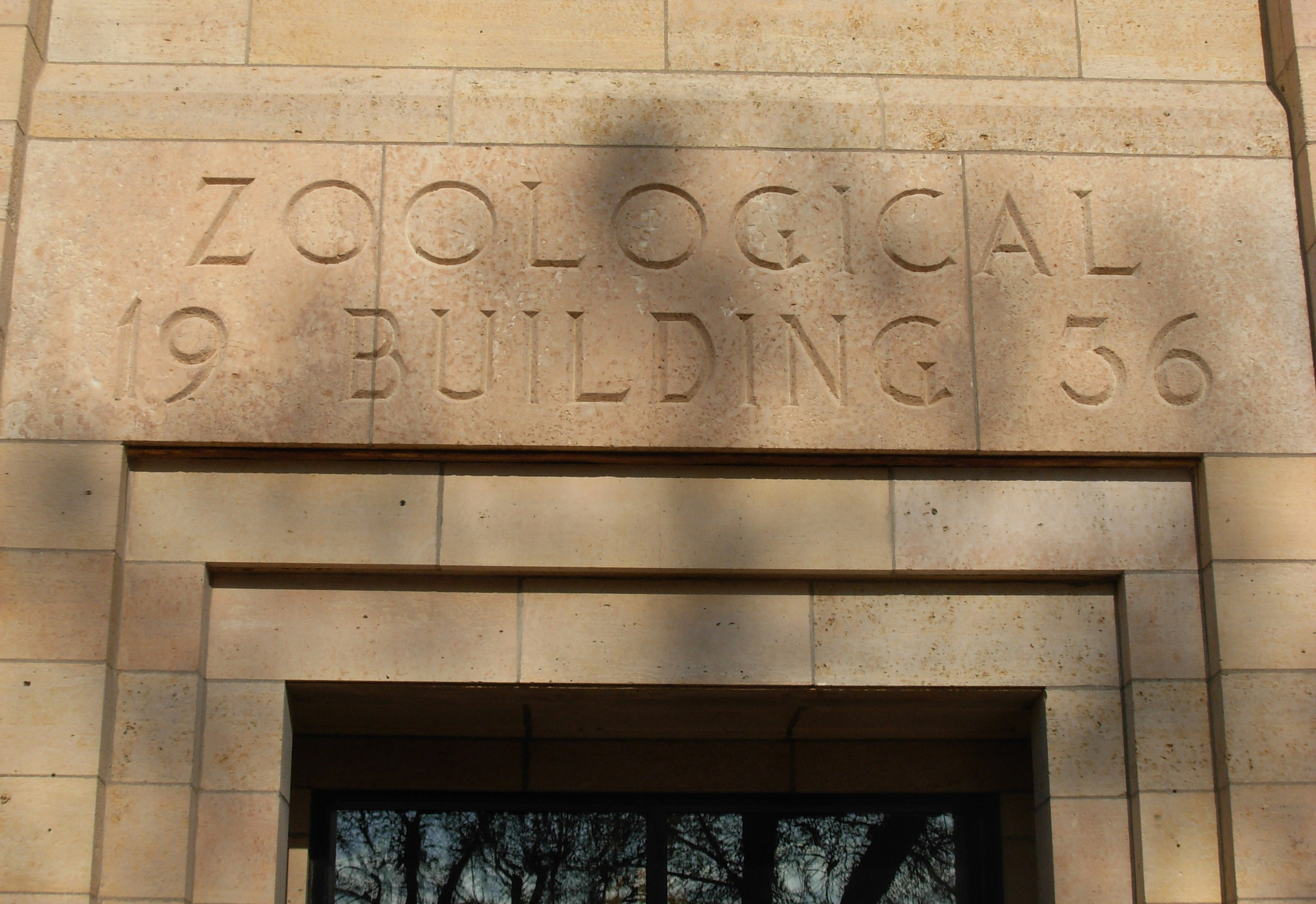 1936 Como Zoological Building entrance in St. Paul, Minnesota